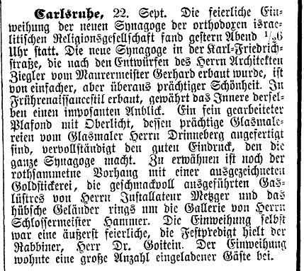 Newspaper report on the inauguration of Karlsruhe orthodox synagogue in 1881.